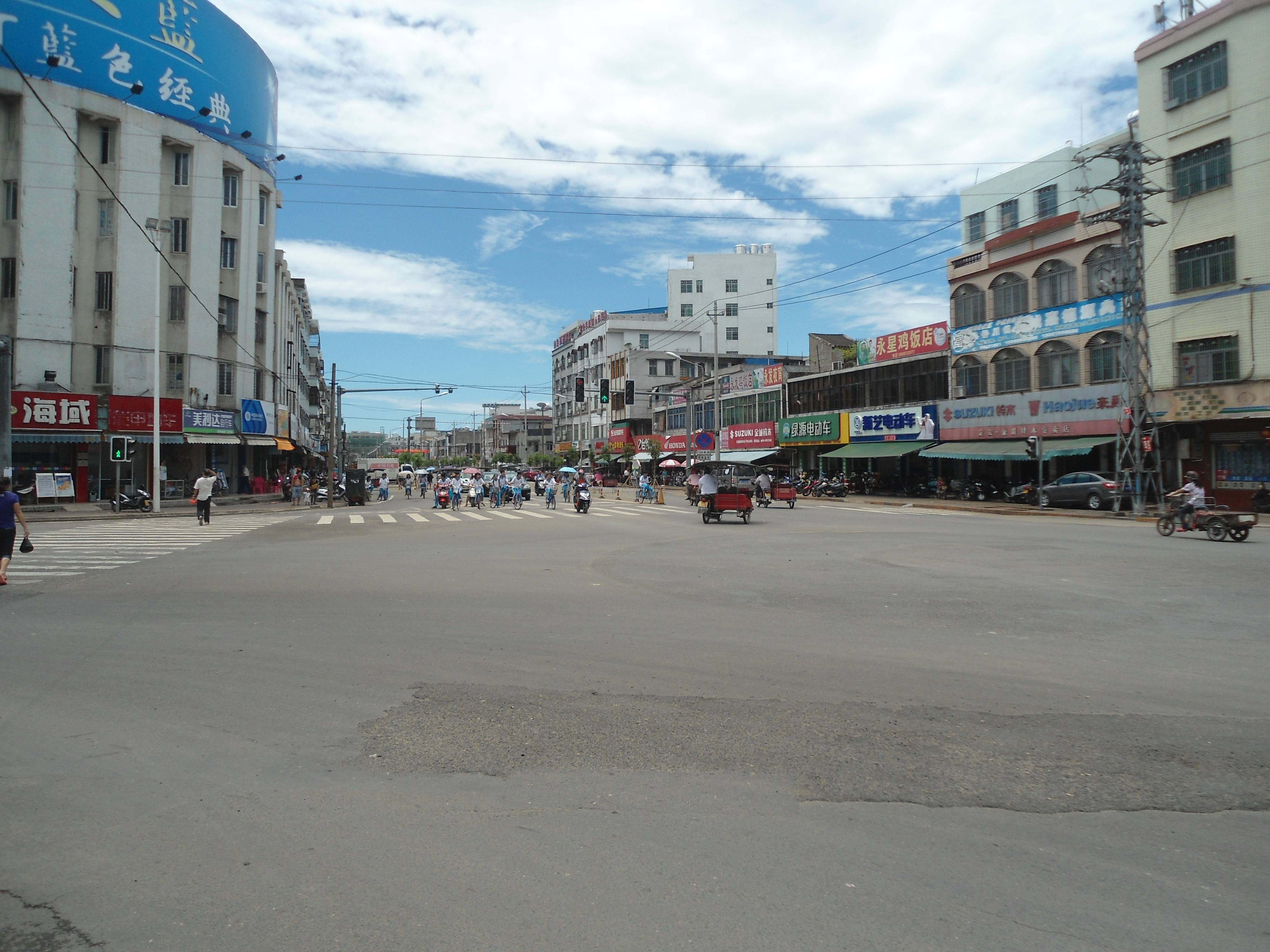 Downtown Dingcheng, Ding'an, Ding'an County, Hainan, China.